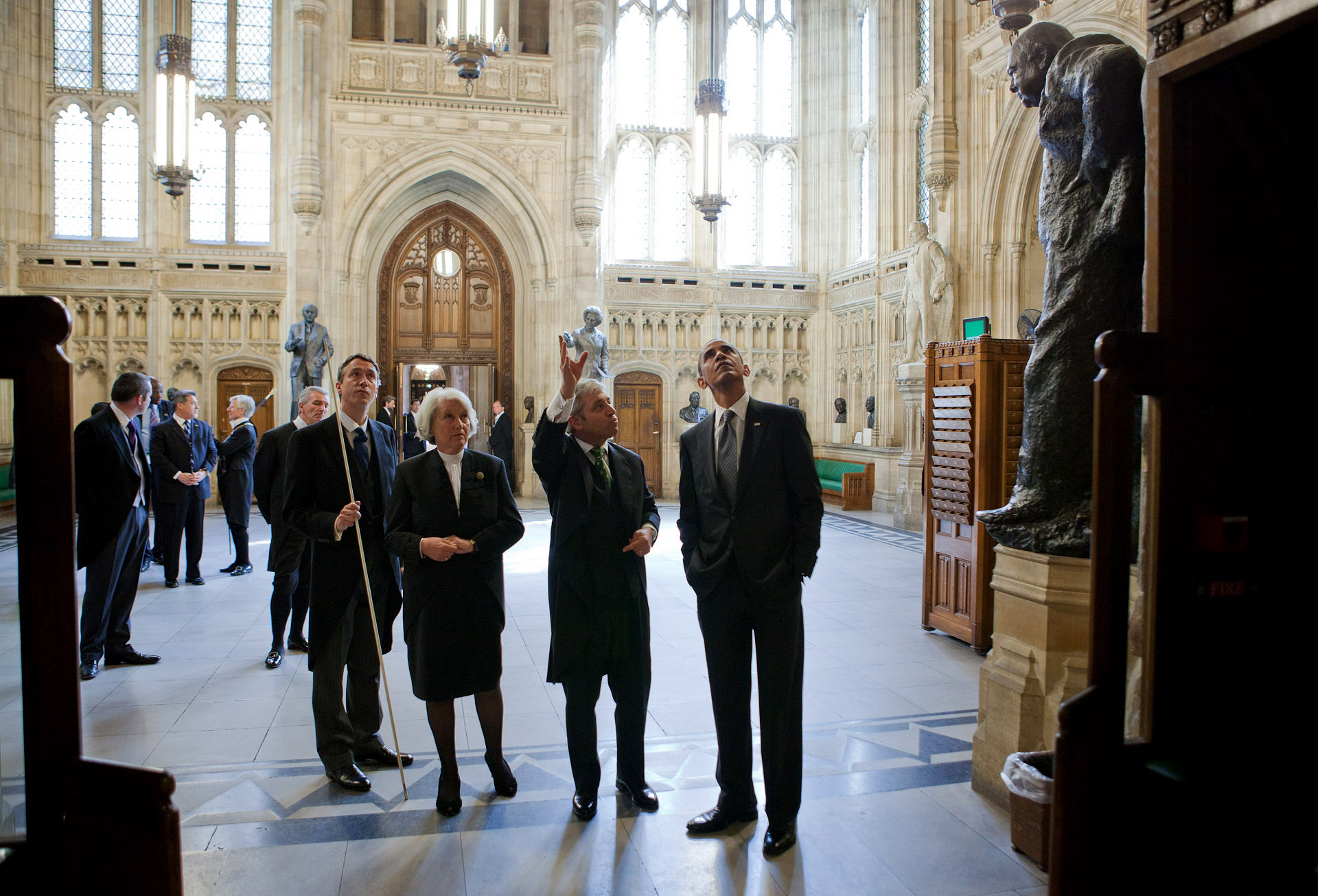 The Marquess of Cholmondeley, the Lord Great Chamberlain, Baroness Hayman, the Lord Speaker, John Bercow, the Speaker of the House of Commons, and Barack Obama, the President of the United States, examining a statue of Sir Winston Churchill in the Members' Lobby during a tour of the Palace of Westminster prior to the President's speech to the Parliament of the United Kingdom on 25 May 2011. The Lord Great Chamberlain uses his white staff as a verger's rod, to indicate a path of travel to VIP's, including to the monarch at the State opening of Parliament. The stick is held up for maximum visibility (i.e. in a crowded room), and the VIP follows it.